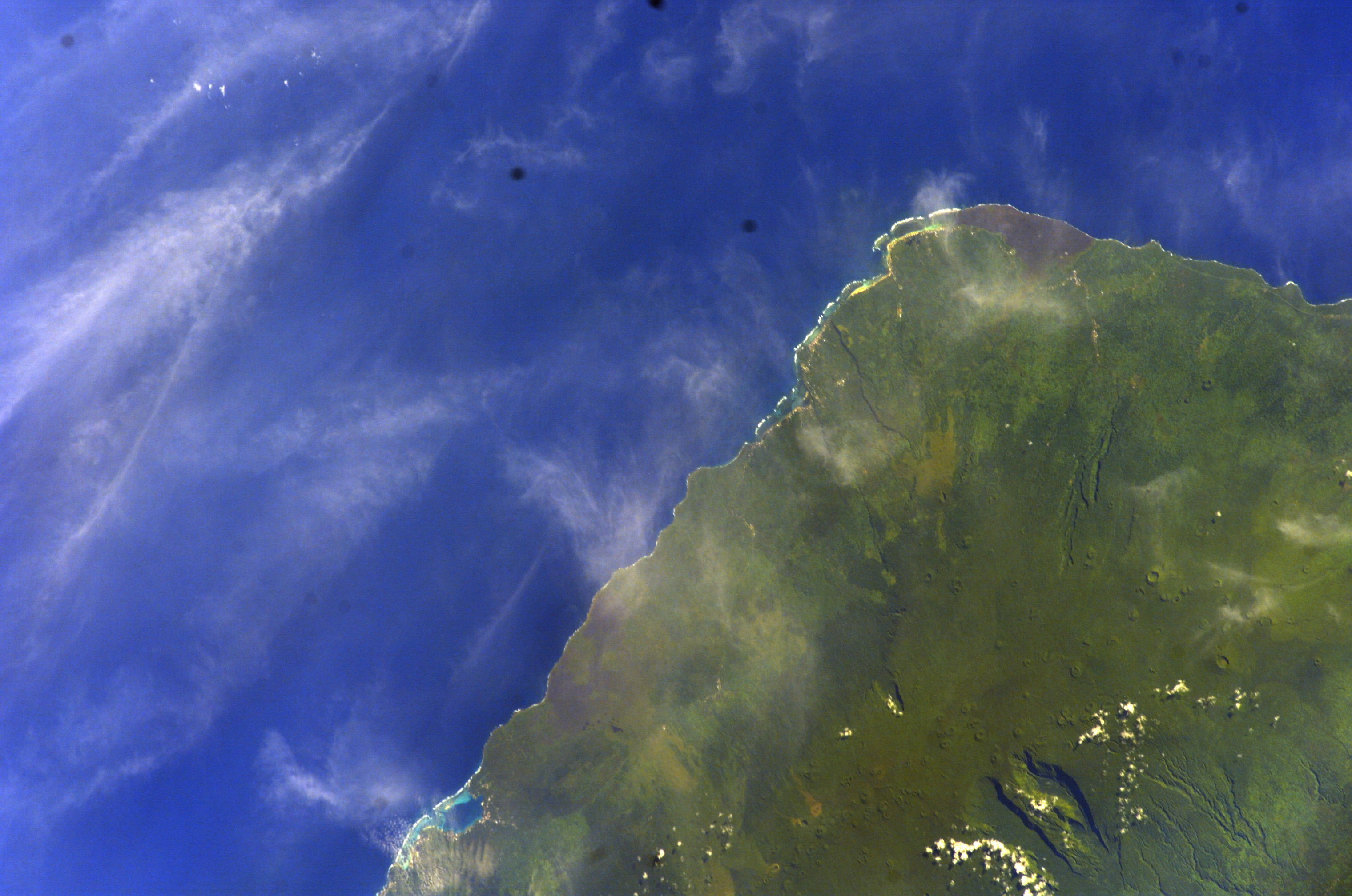 Savai'i island, Samoa, central north coast. Spacecraft Altitude: 188 nautical miles (348 km)